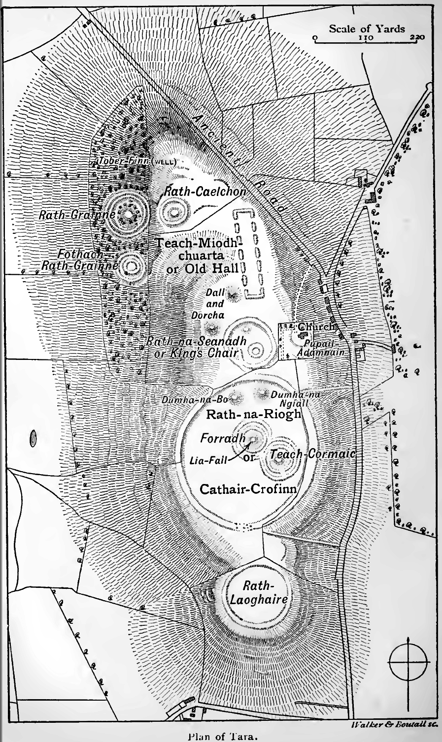 Nineteenth century plan of the Hill of Tara based on a survey of the site and historical records.